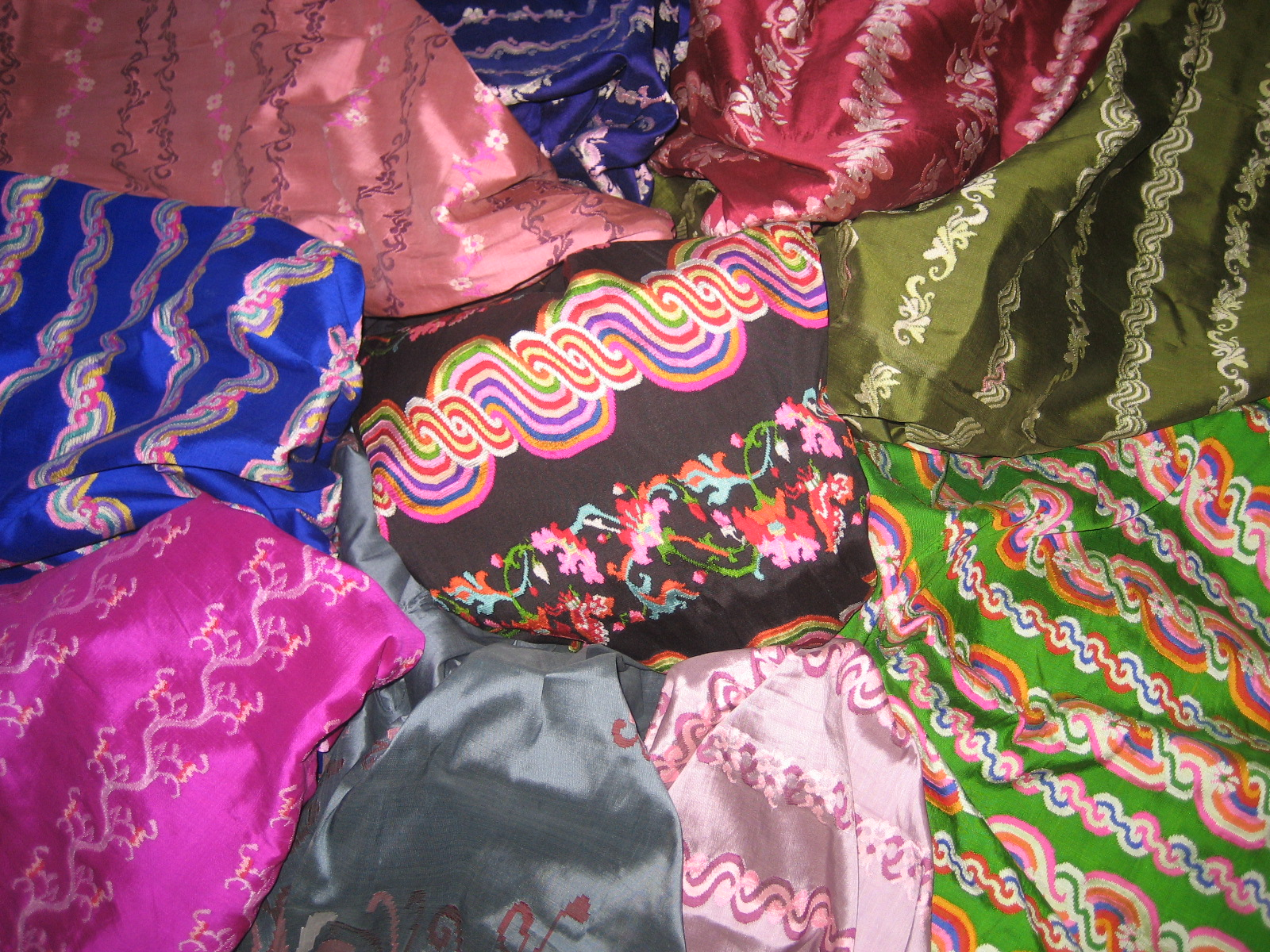 Acheik htamains, a private collection